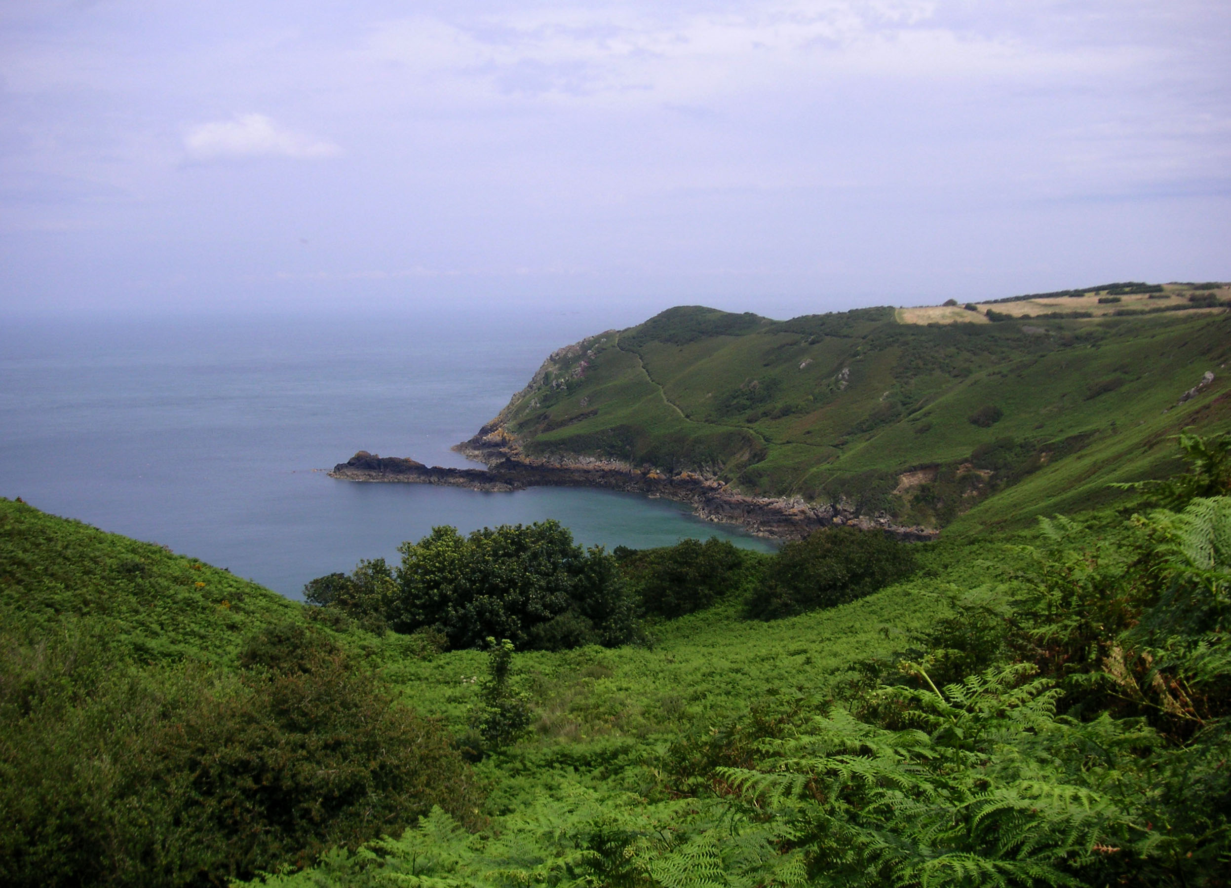 Walking above Bonne Nuit in the north of Jersey (Bonne Nuit lies between the two headlands) Nrf: La Belle Hougue veue d'Frémont, Jèrri